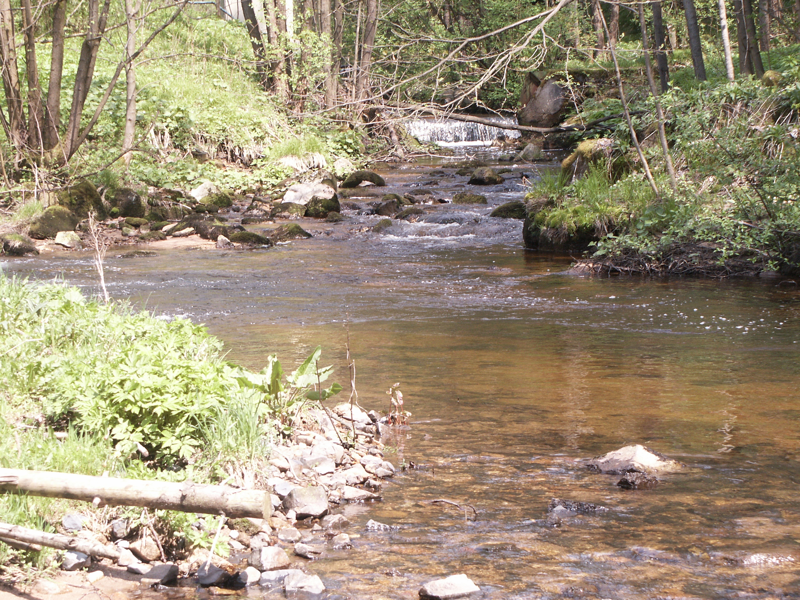 Confluence of Skřiváň and Rotava